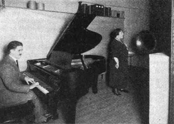 Photograph of Mme. Carolina Hudson Alexander performing at radio station 8ACS, 3138 Payne Avenue, Cleveland in November 1921. This station was licensed to Warren R. Cox and located at the Cox Manufacturing Company. The original caption was: "The Steinway and Mme. Alexander Were Heard in Concert in Cleveland"